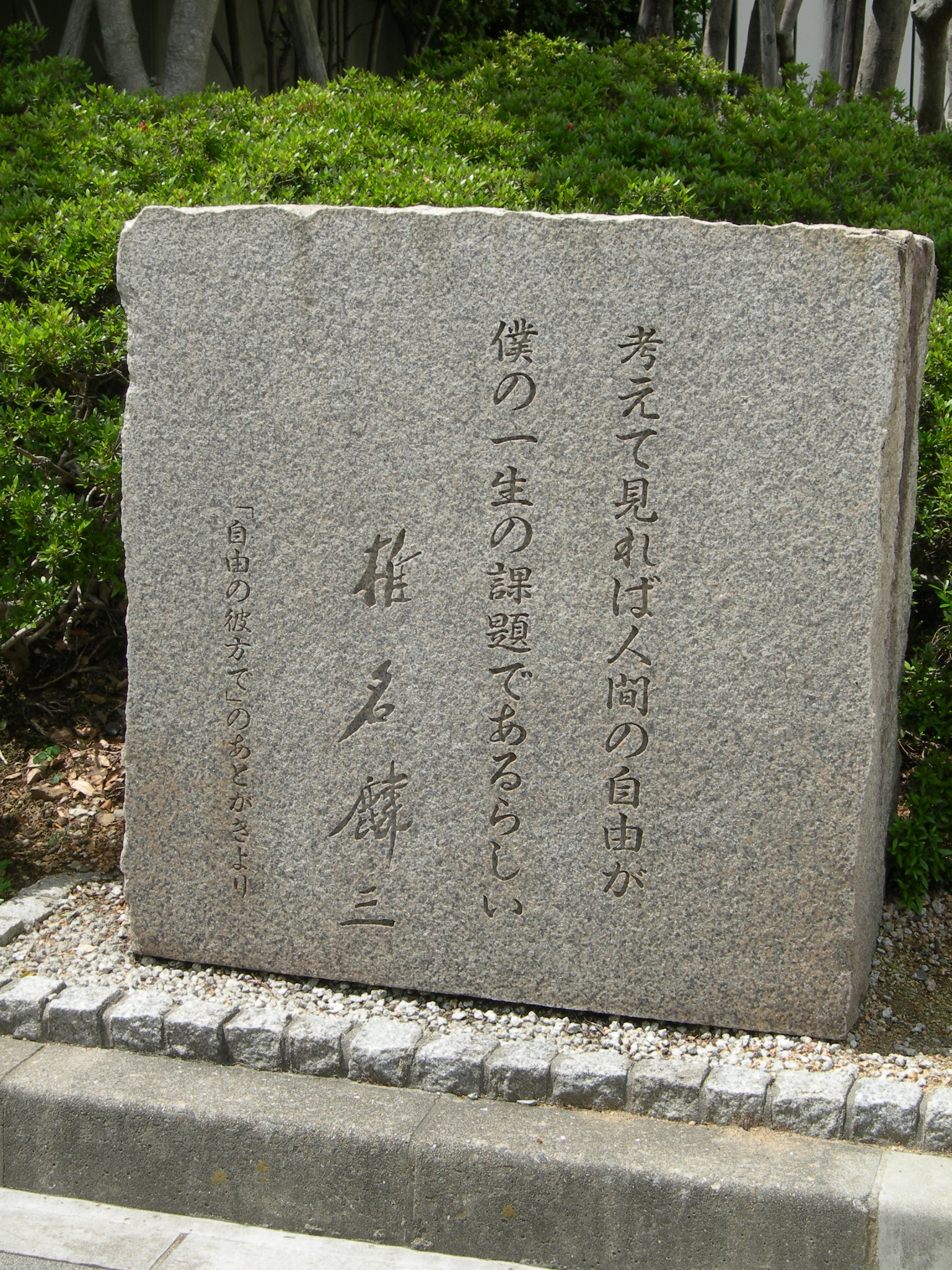 Literary monument of the Shiina Rinzō (Japanese novelist).